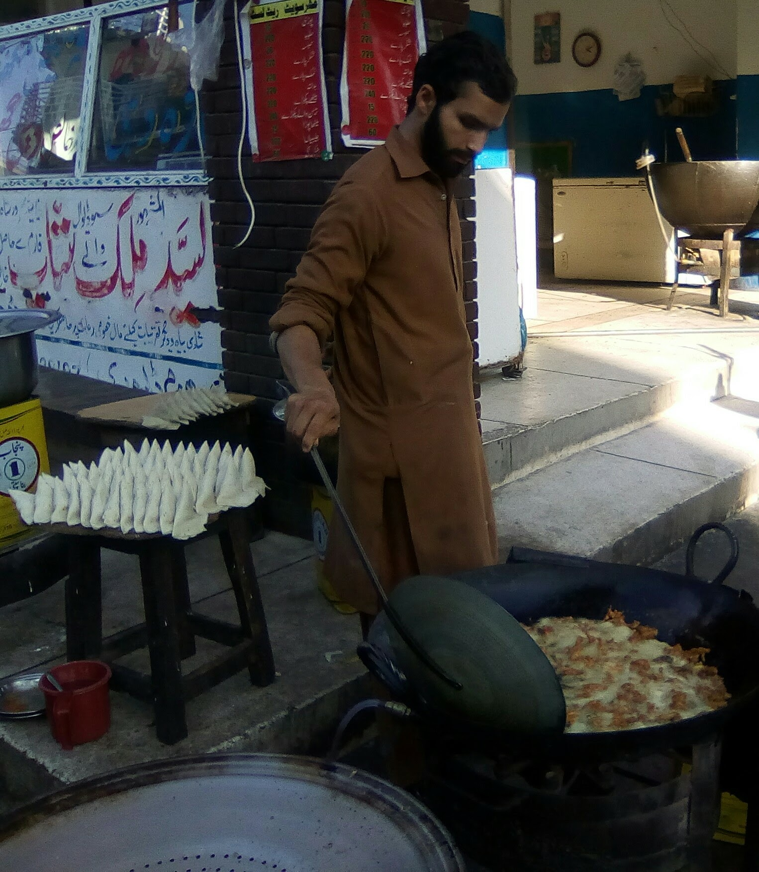 Frying samosa